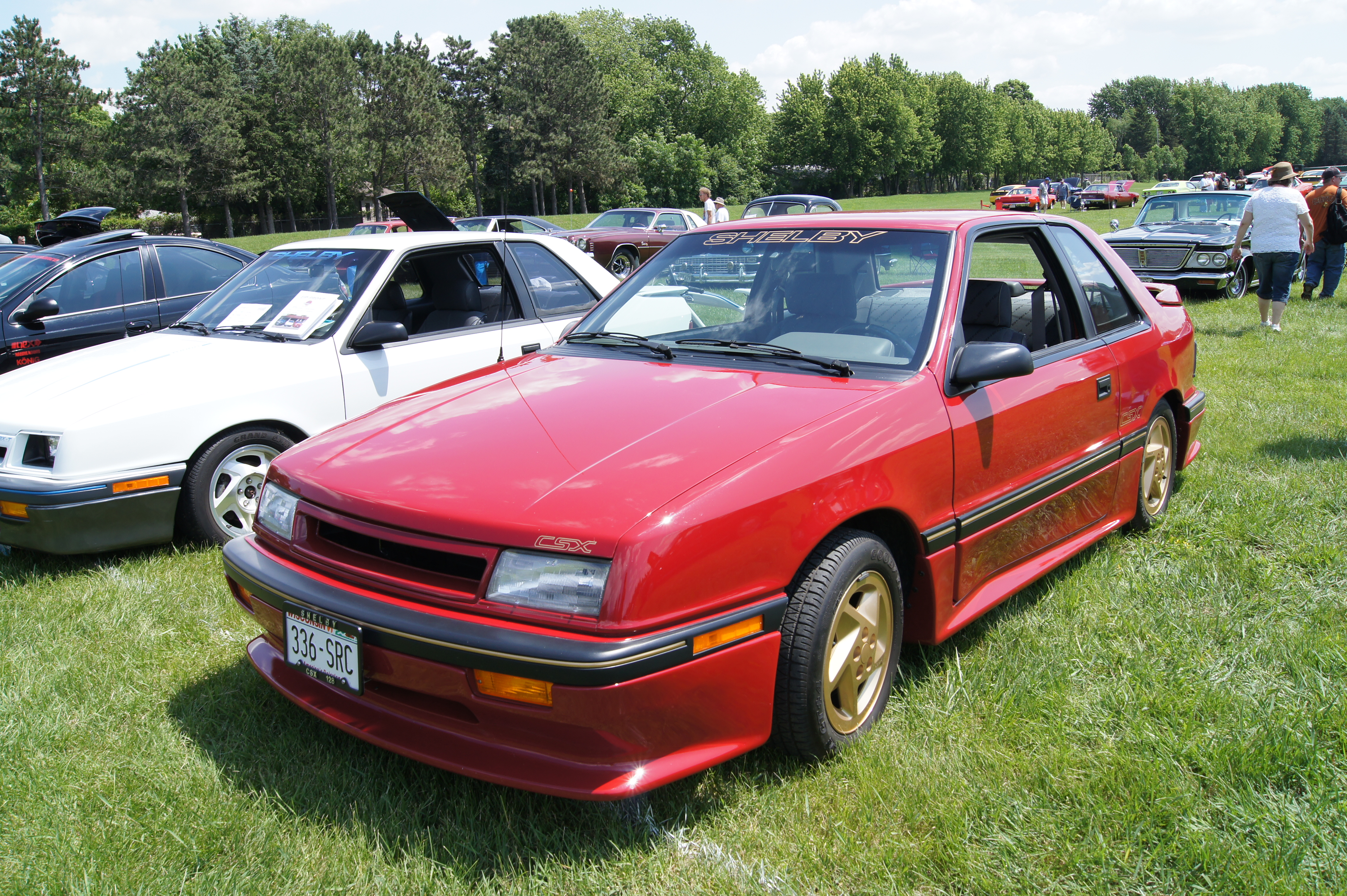 28th Annual Midwest Mopars in the Park June 2, 2012